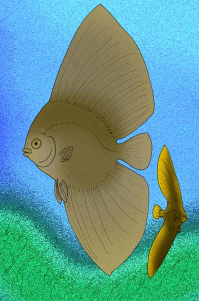 Reconstruction of the ephippid batfish, Eoplatax papilio, from the Monte Bolca lagerstatte of Eocene Italy